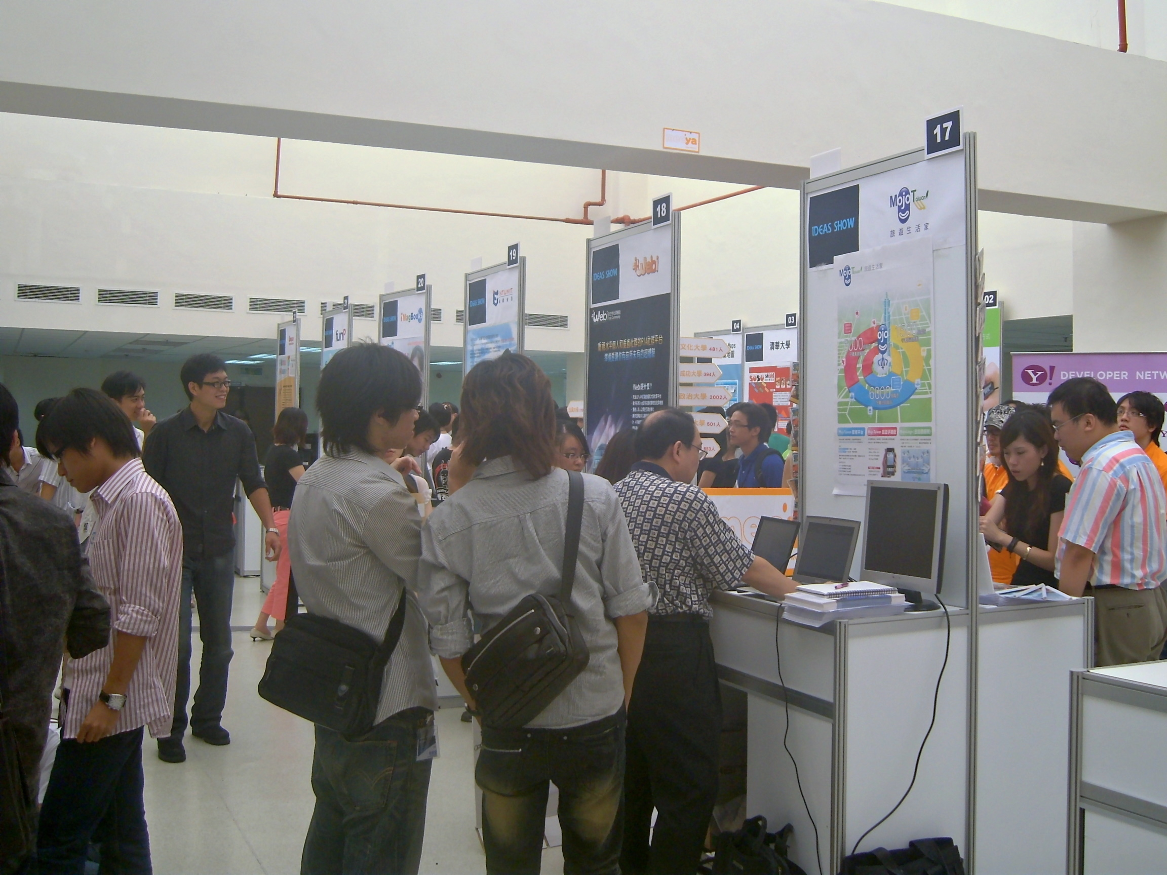 2008 III IDEAS Show.